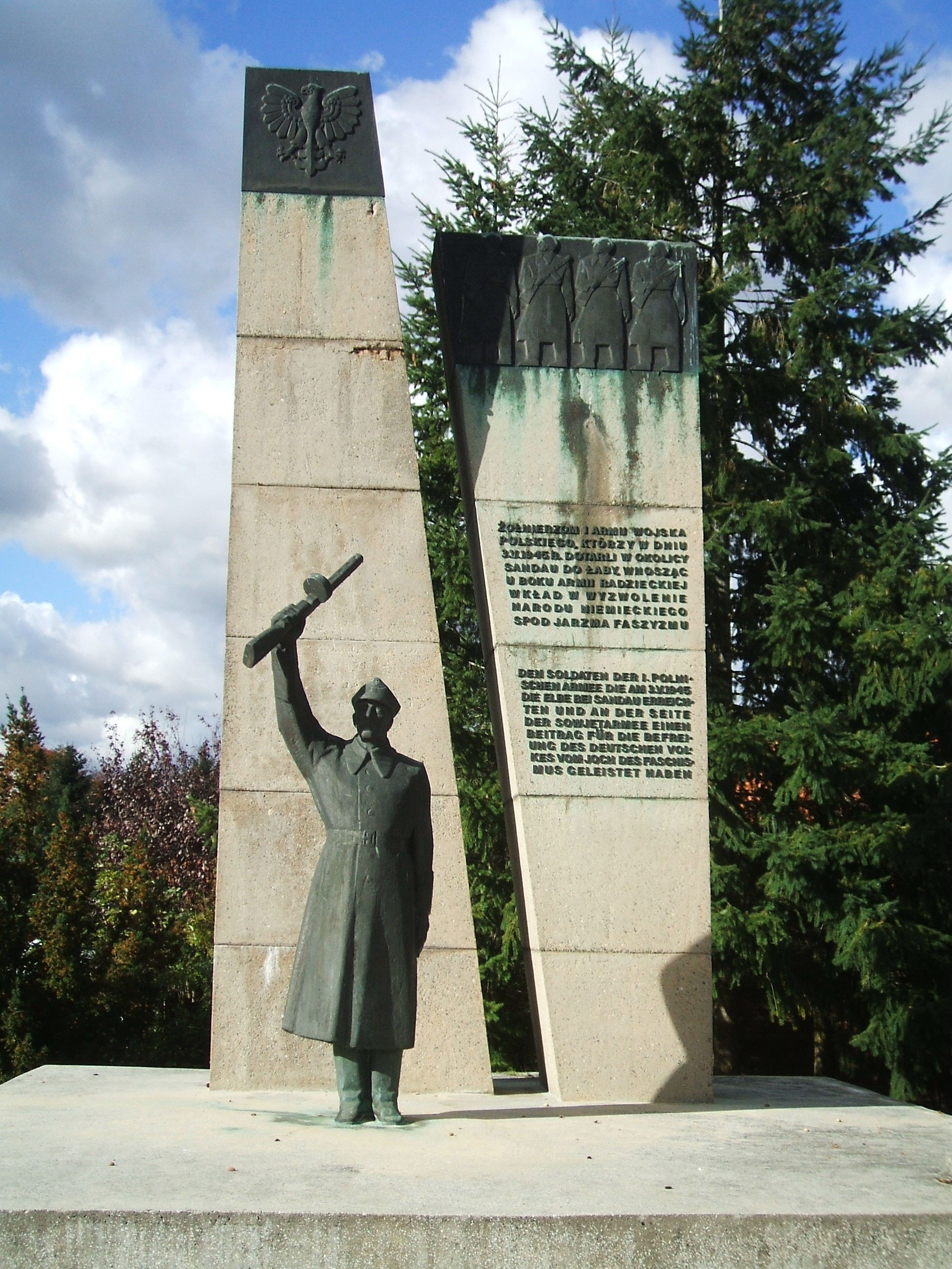 Monument for the 1. Polish Army in Sandau (Elbe), Germany.